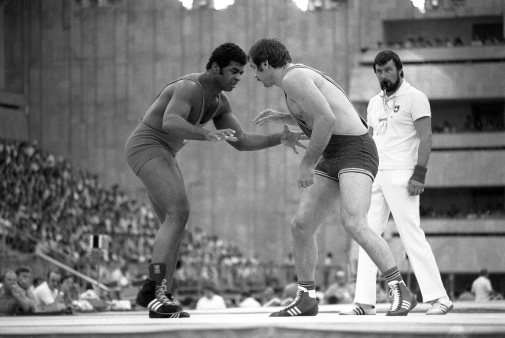 “Match between B.Morgan, Cuba, and Ilya Mate, USSR”. Match between Bárbaro Morgan, Cuba, and silver medalist of the 1980 Olympiad Ilya Mate, USSR. Freestyle wrestling. XXII Summer Olympic Games (July 19- August 3, 1980).